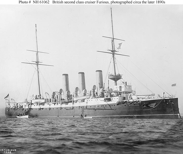 Photograph of British second class cruiser HMS Furious.